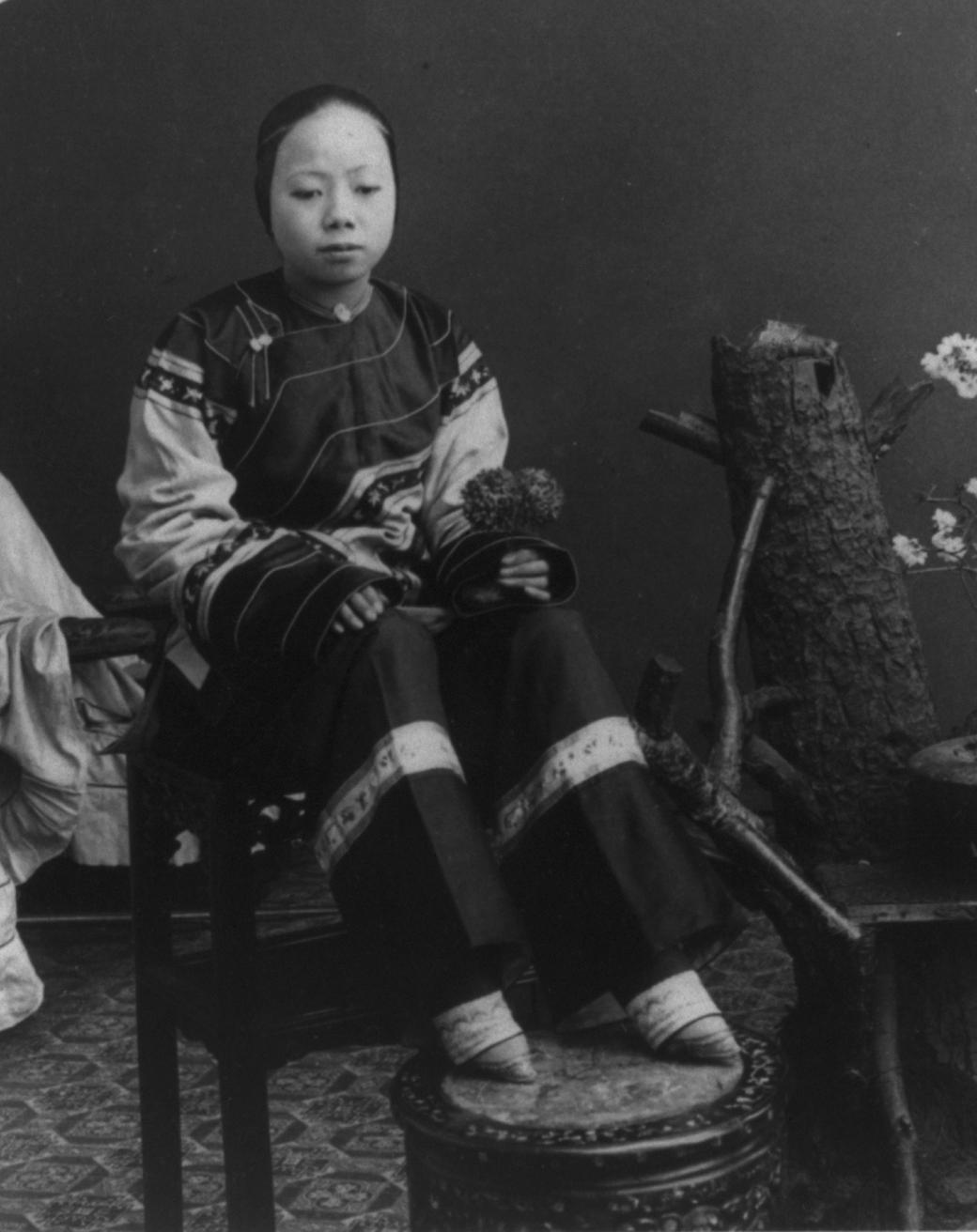 A "lily footed" woman of China.